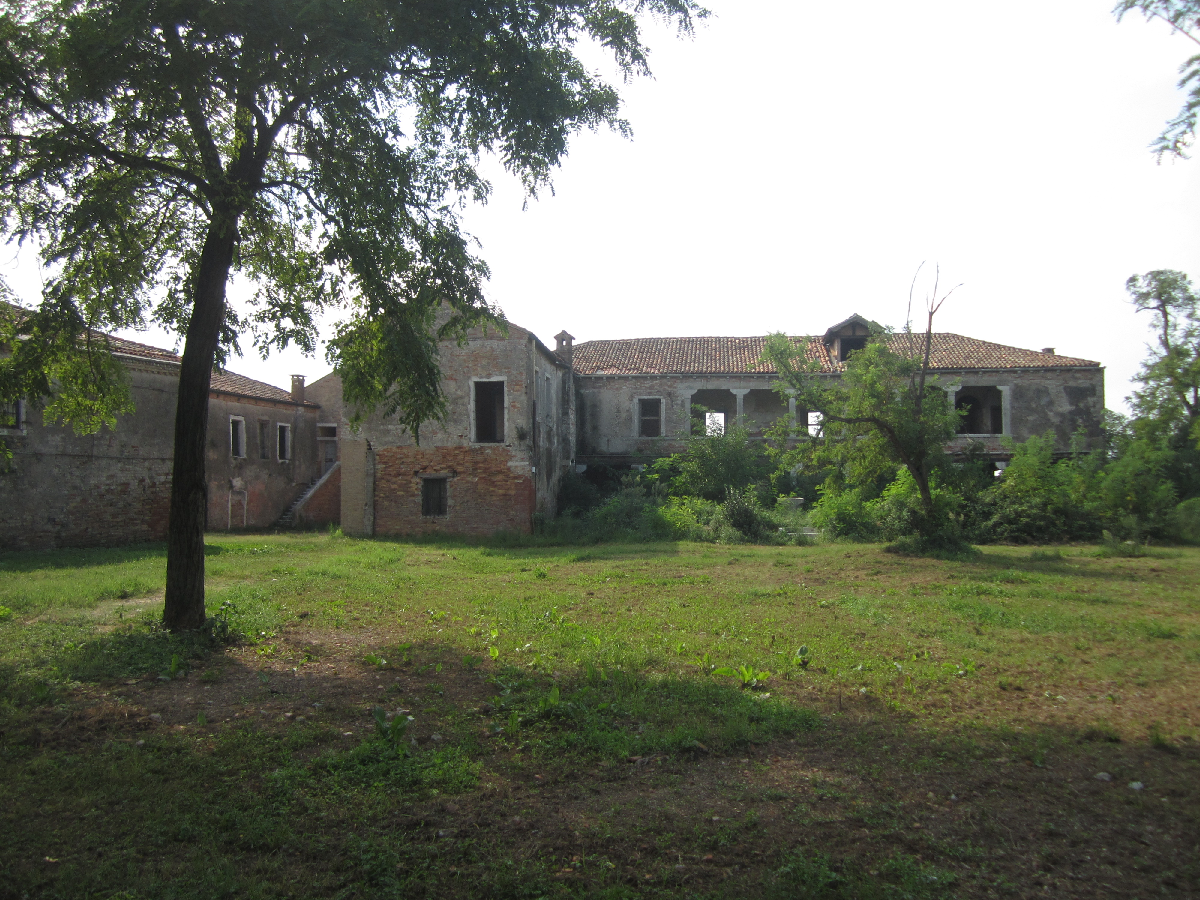 Panorama of the Lazzaretto buildings